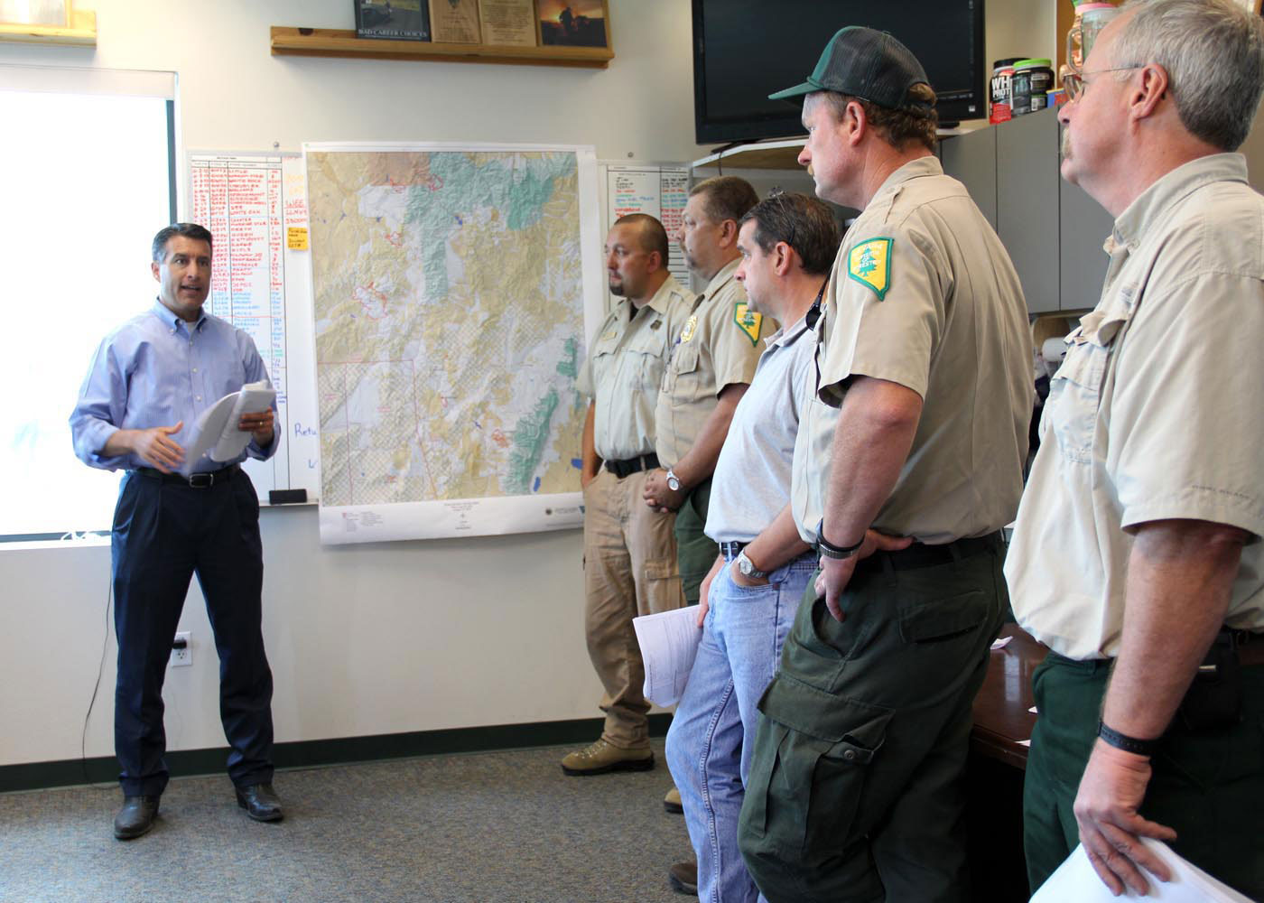 Nevada Governor Brian Sandoval meets with the Interagency Fire Management Team during a visit to the Elko Interagency Dispatch Center as part of a tour of Northeast Nevada to observe current fire activity. Nevada Division of Forestry hosted the governor and provided a brief on the fires actively burning within the District. From L to R: Dylan Rader, Interagency Fire Management Officer, Elko District, BLM; Tim Woolever, FMO Northeast Nevada Ranger Protection District, NDF; Leo Drozdoff, Nevada Department of Conservation and Natural Resources; Scott Rasmussen, acting Fire Program Manager, NDF; Dave Overcast, Agency Administrator Elko District BLM.